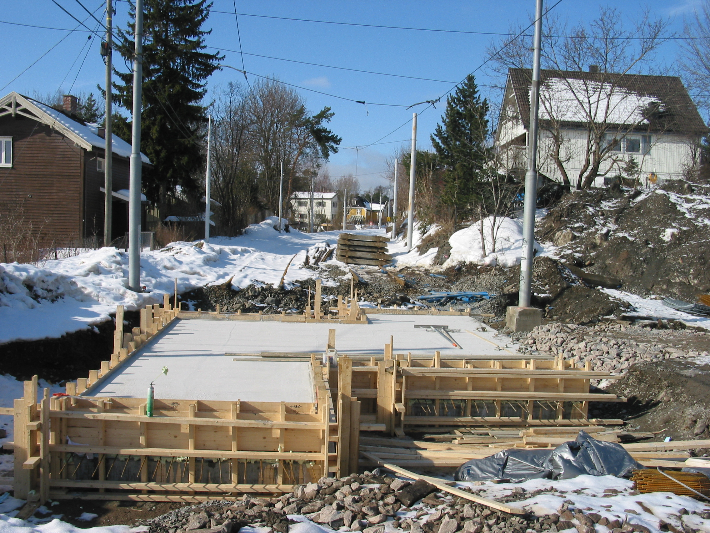 In February 2009, the Lilleaker Line was cut off at Lilleaker station. The line used to run westwards from this point, the rail tracks are visible behind the ... wooden thing that's being built.